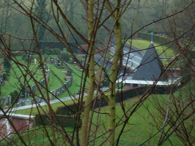 Valkenburg, the Netherlands. View of Cauberg Cemetery and the triangular chapel of the WWII Resistance memorial on Cauberg.